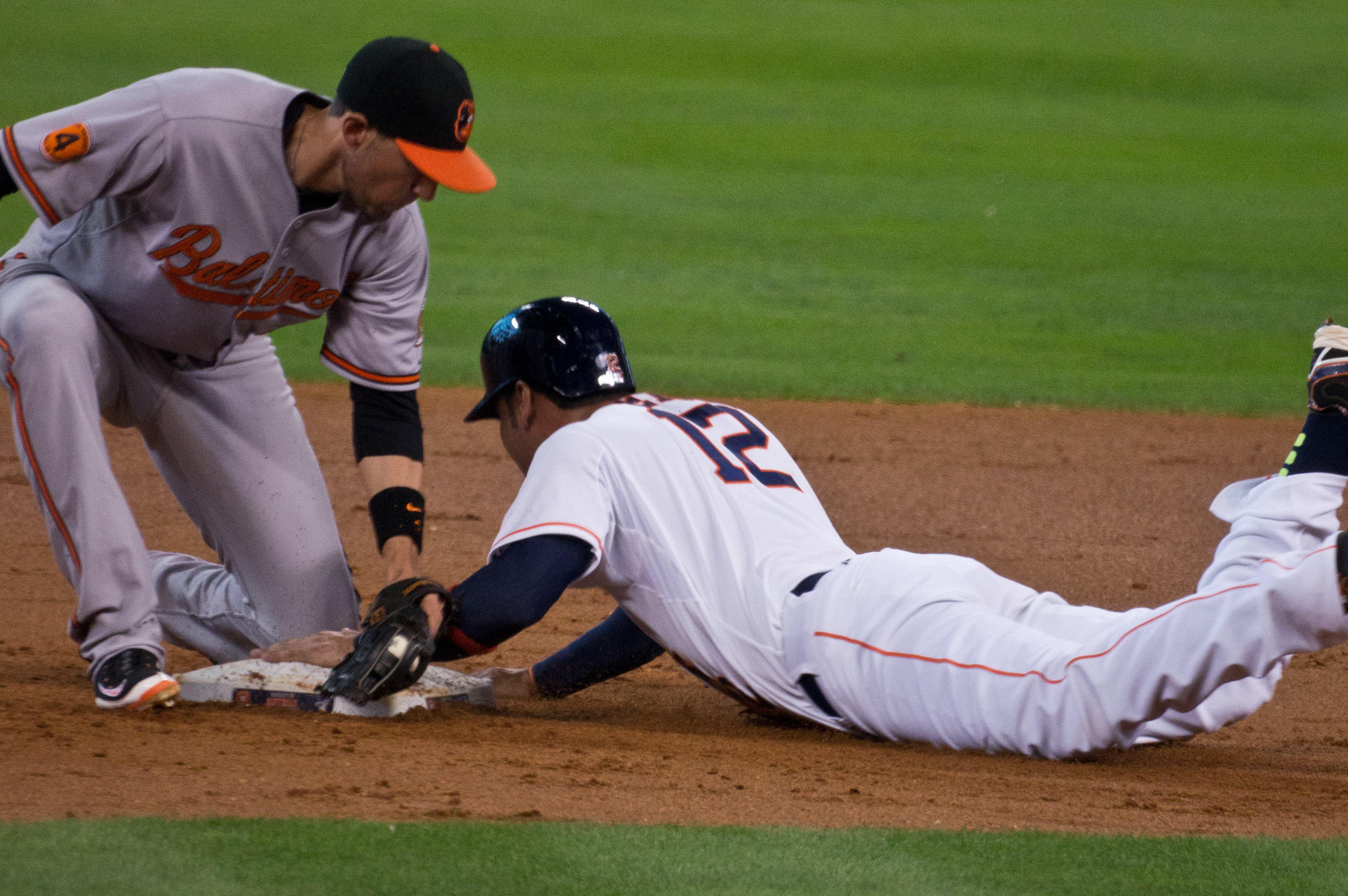 Carlos Pena advanced to second after Chris Tillman's wild pitch.